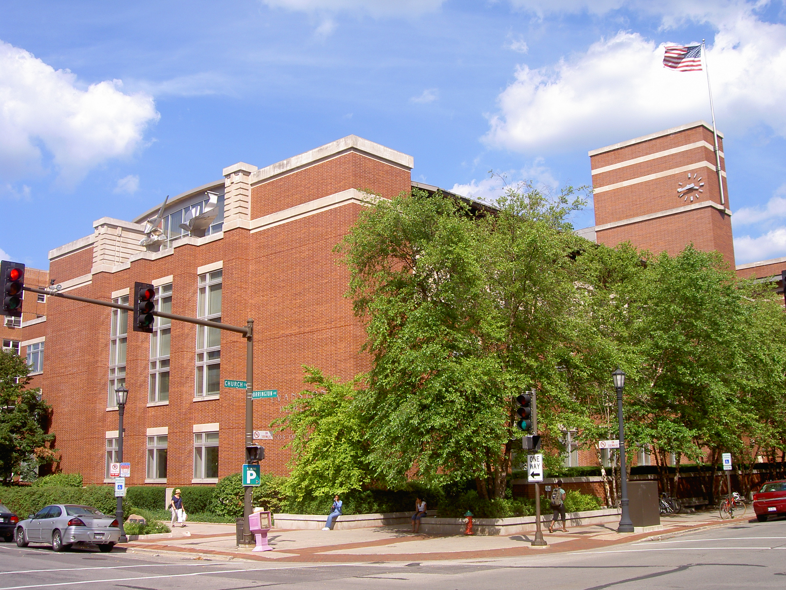 Evanston, IL